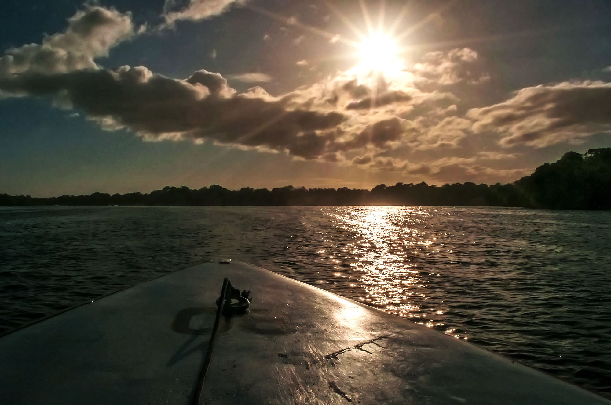 Sunset in La Restinga Lagoon